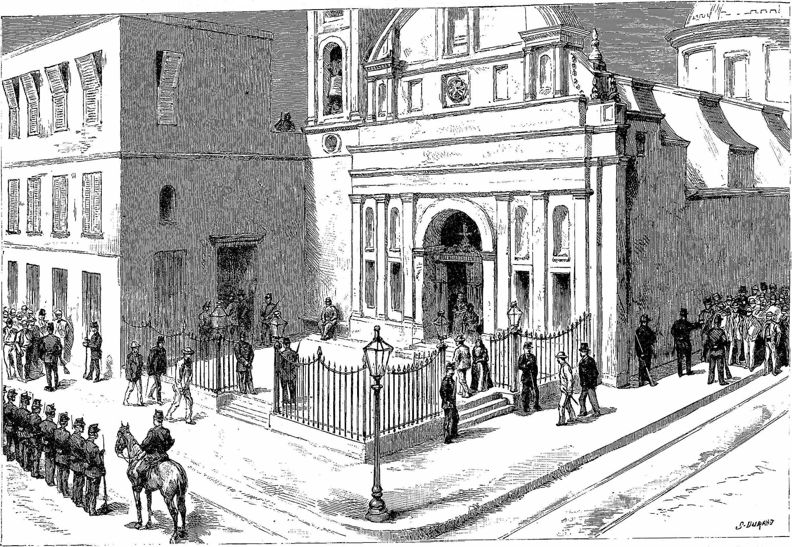 The Presidential Election in Argentina, the Polling-Station at the Church of La Merced, Buenos Ayres. "The rival voters were kept back by an armed force of police out of sight of each other, only batches of two ar three being allowed to enter the polling-office ata time. Armed sentries guarded the gates and the door leading to the office, and were also posted on the roofs of the adjoining houses and in the belfry and tower of the church."